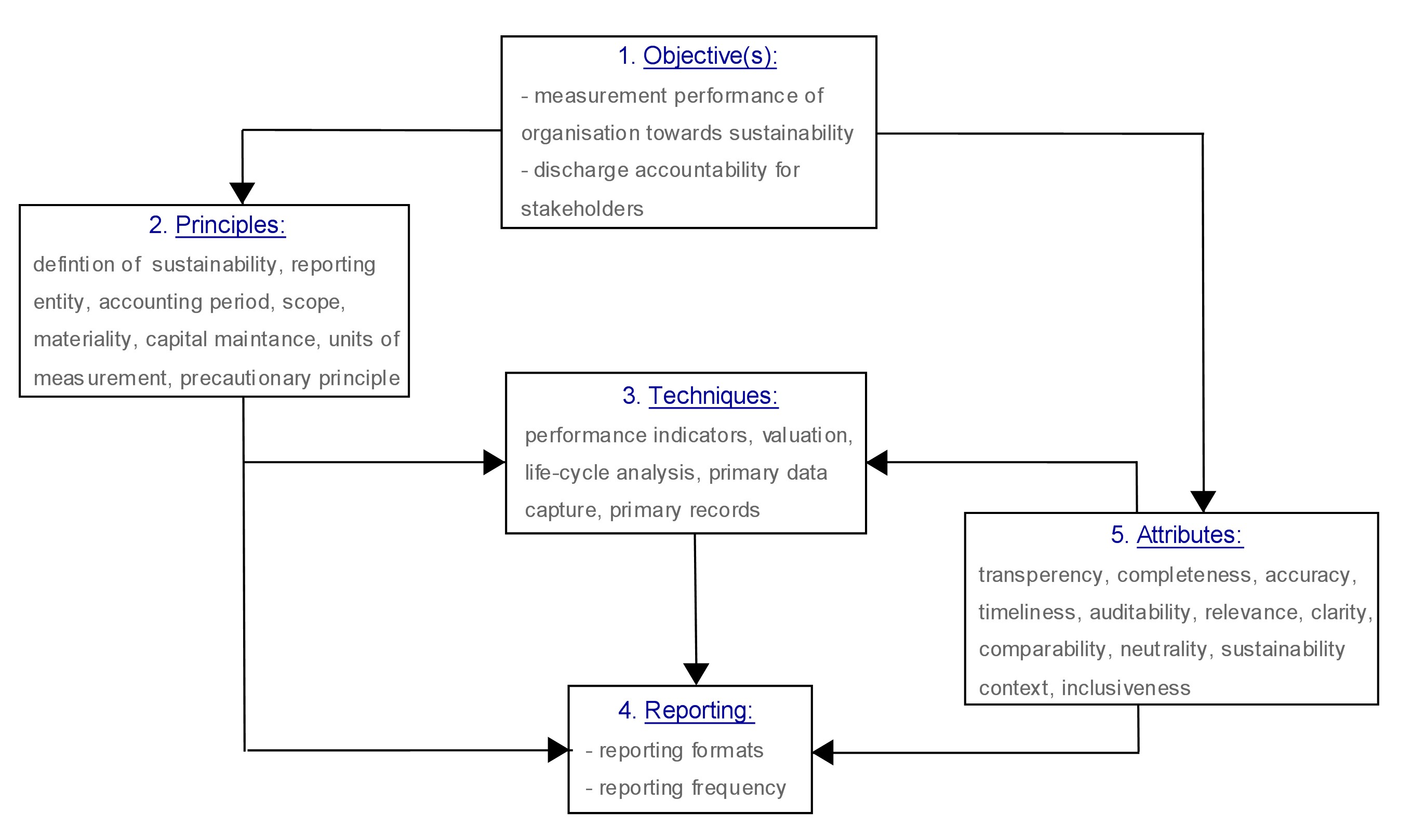 Based on Lamberton, G. (2005). "Sustainability accounting—a brief history and conceptual framework", Accounting Forum, Vol. 29, No 1, March, pp. 7-26